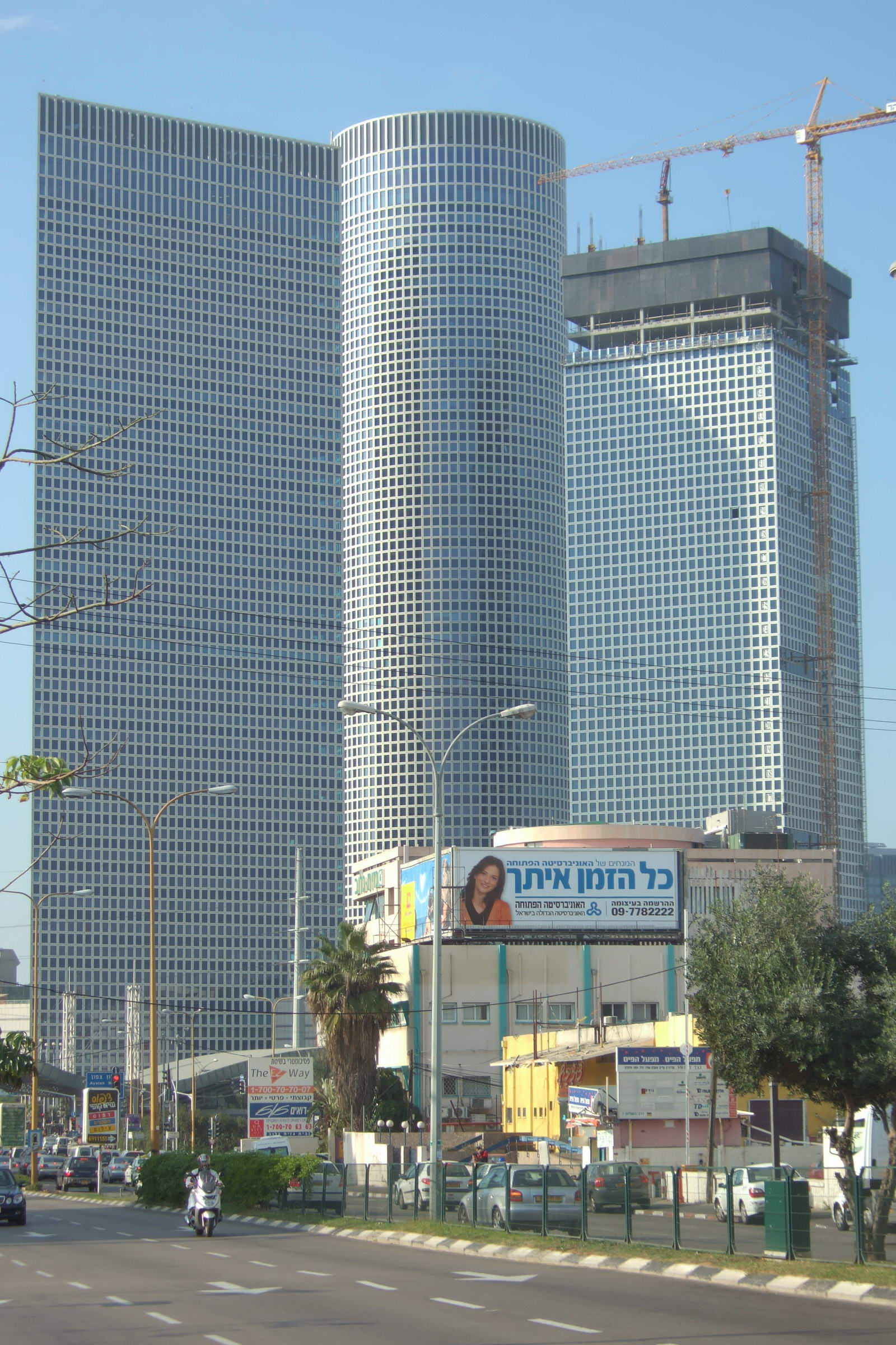 Three towers of Azrieli Center. (The square tower is under construction.) December 2006.